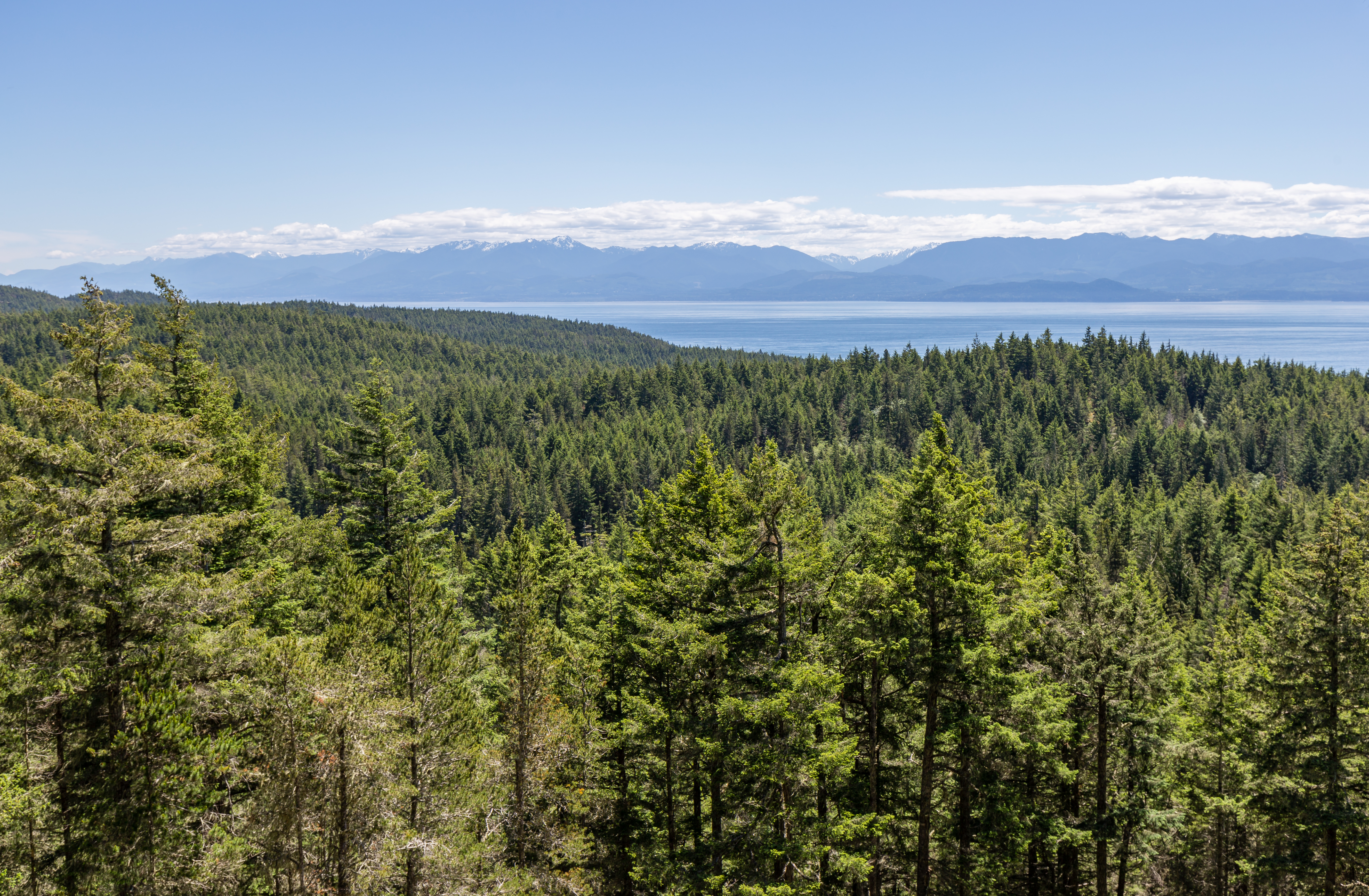 View from Mount Magurie towards Washington, East Sooke Regional Park, British Columbia, Canada